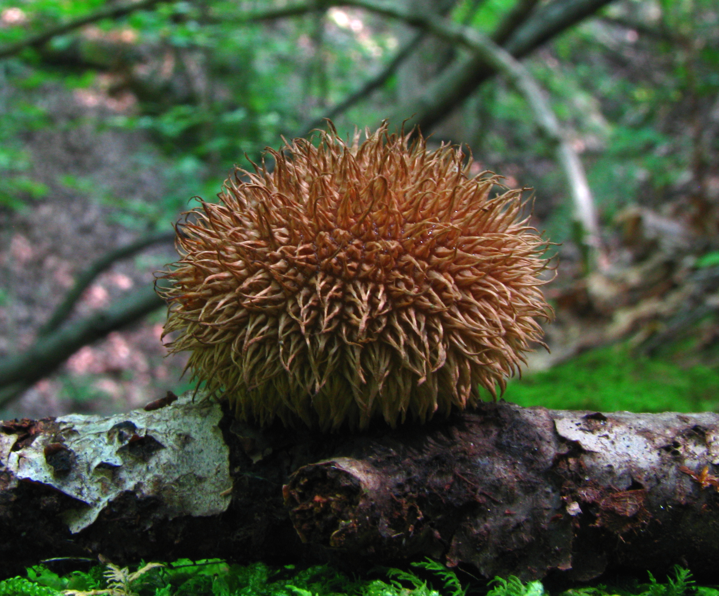 The Spiny puffball — Lycoperdon echinatum. Specimen photographed in Wayne National Forest, Athens Co., Ohio, USA. Notes: "This spiky little brown puffball was growing on a fallen stick about the size of my finger." Original photo cropped and brightened +5 with Photoshop.